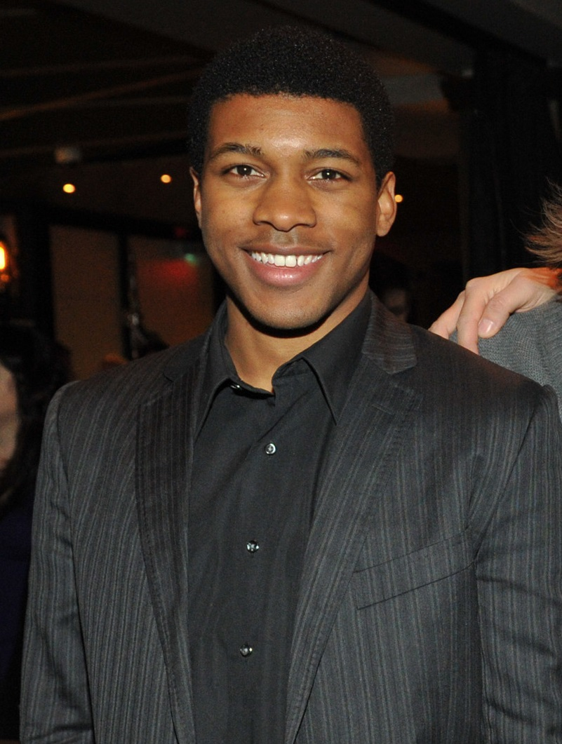 Eli Goree was an Actors Conservatory resident at the Canadian Film Centre, in 2010.